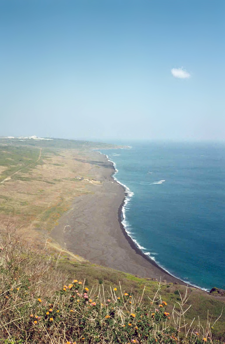 Picture taken in February of 2002 from the top of Mount Suribachi looking down onto the invasion beach.